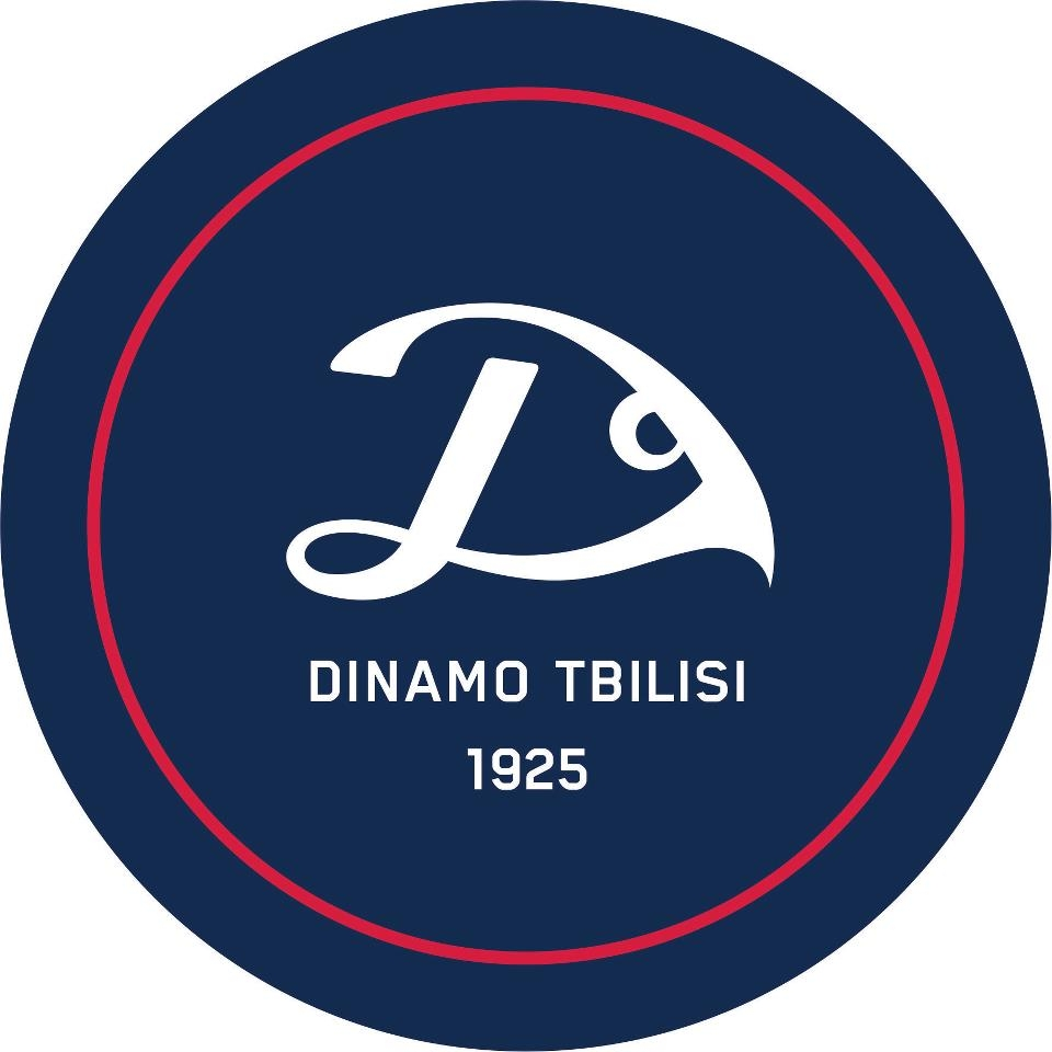 Dinamo Tbilisi logo 2012